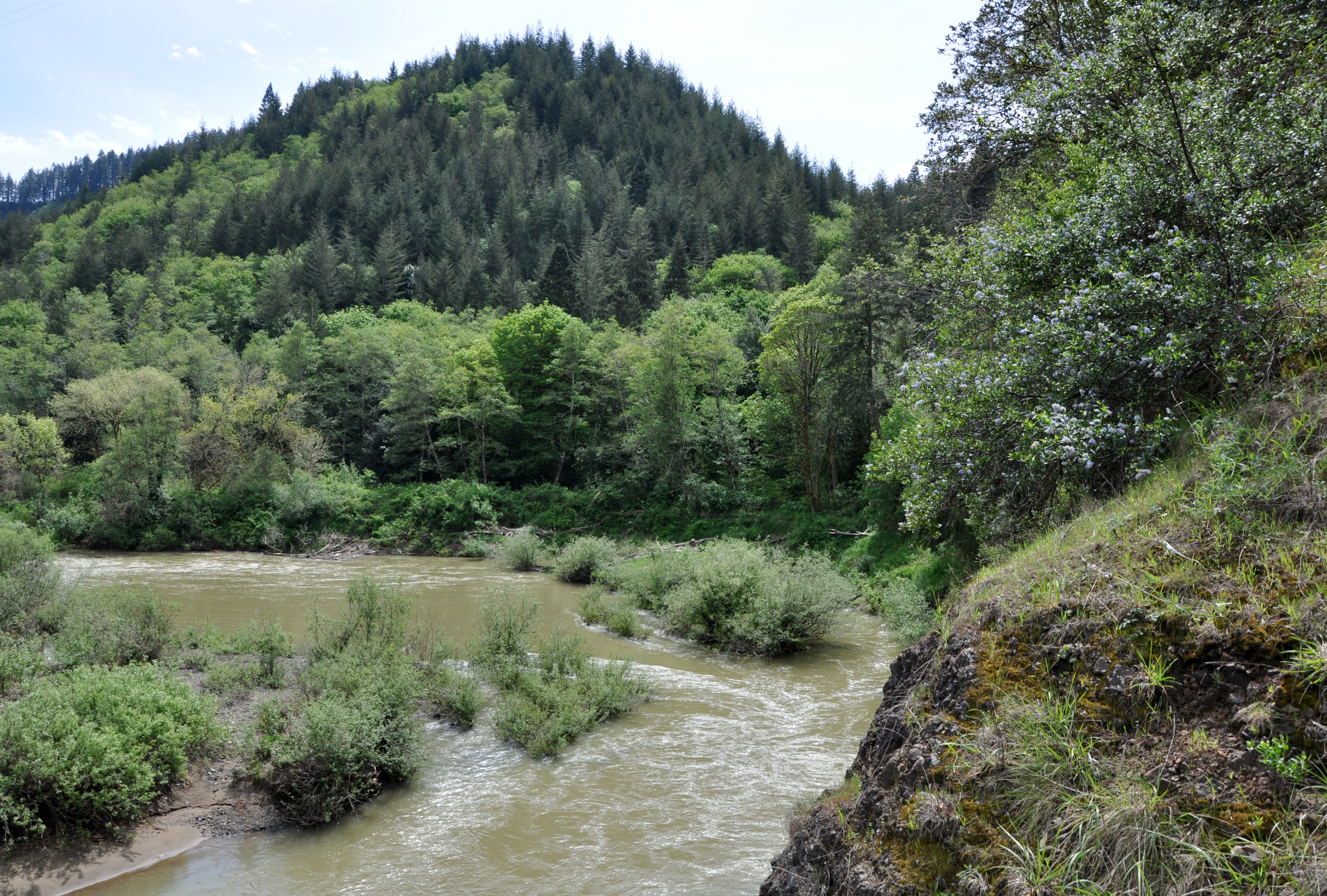 Middle Fork Coquille River in the U.S. state of Oregon. View is from a bridge carrying Oregon Route 42 over the river near Guerin Lane.